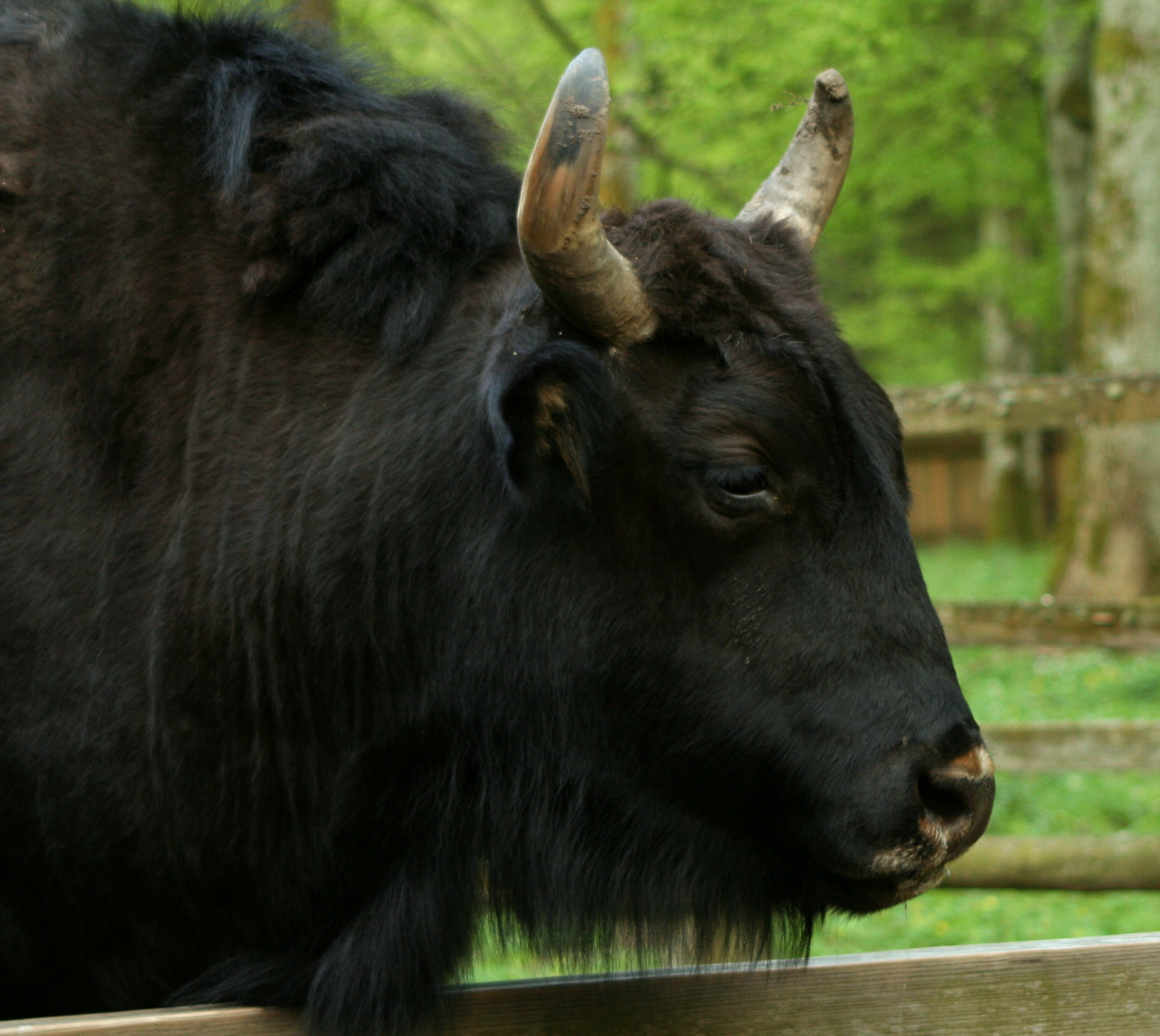 Żubroń or Zubron in Białowieża